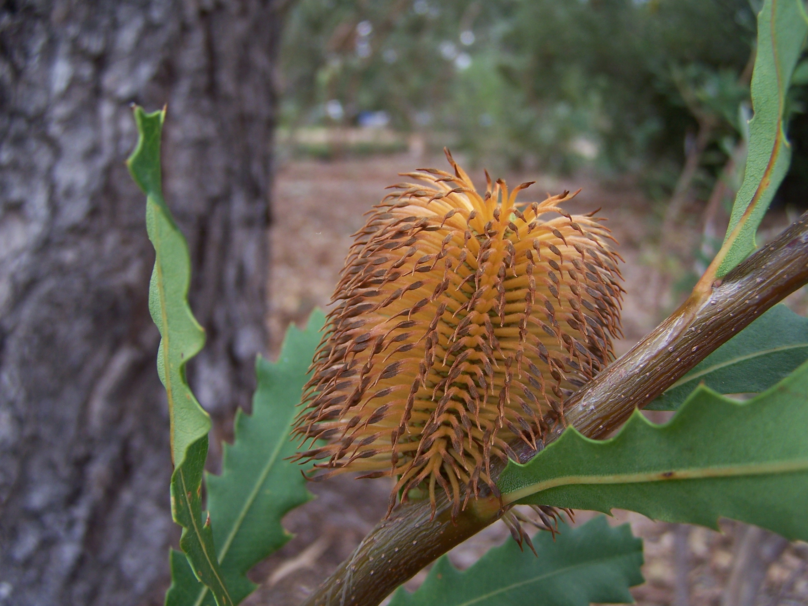 Banksia plants, currently flowering in the Banksia garden in Kings Park Banksia quercifolia Oak Leaved Banksia